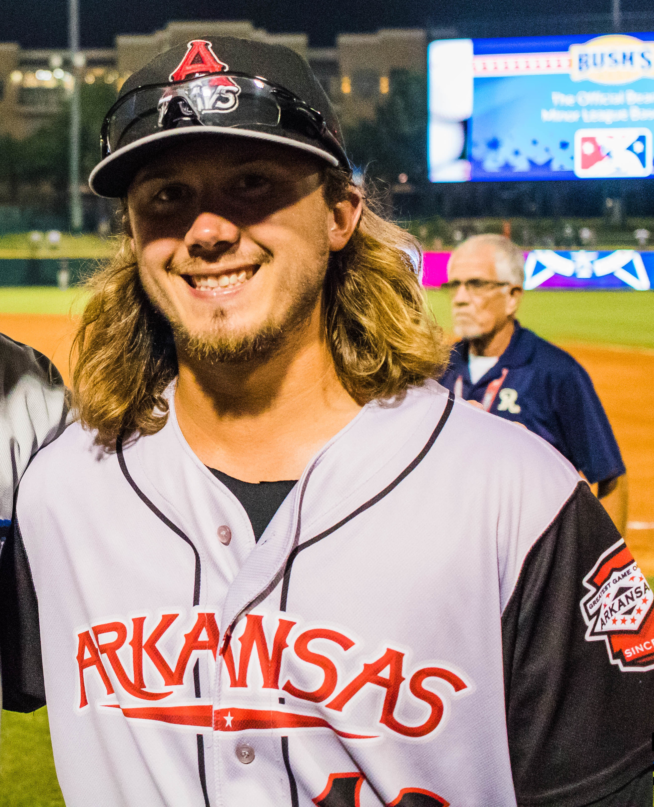 Zac Curtis of the Arkansas Travelers at the Texas League All-Star Game in 2017